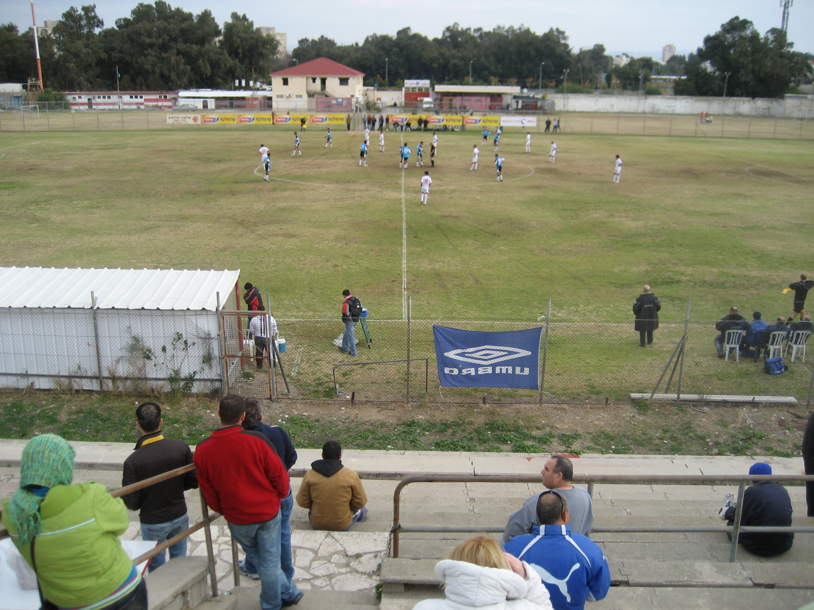 The Thomas D'Alesandro Stadium or, more commonly, the Qiryat Haim Stadium at Qiryat Haim just north of Haifa, is a multipurpose stadium in Israel. (December 2006)